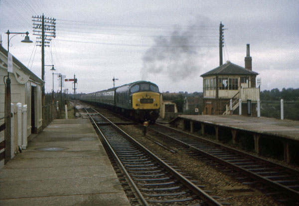 Nailsea and Backwell Signal Box, November 1971. The box was closed on December 4 1971